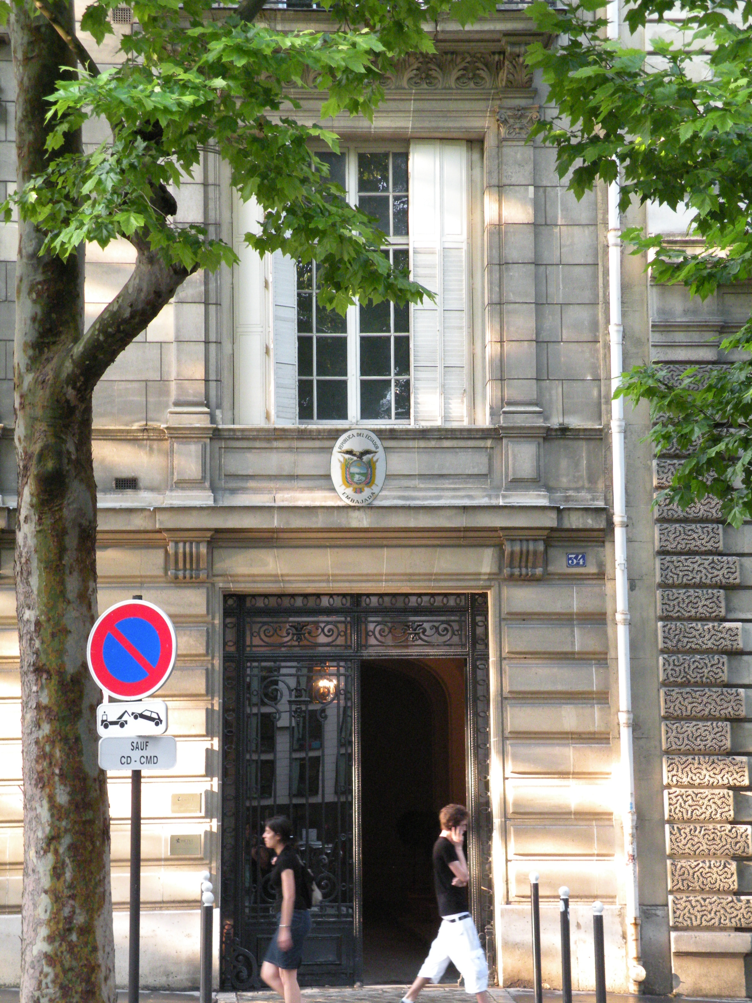 Ecuadorean embassy in France, Paris.